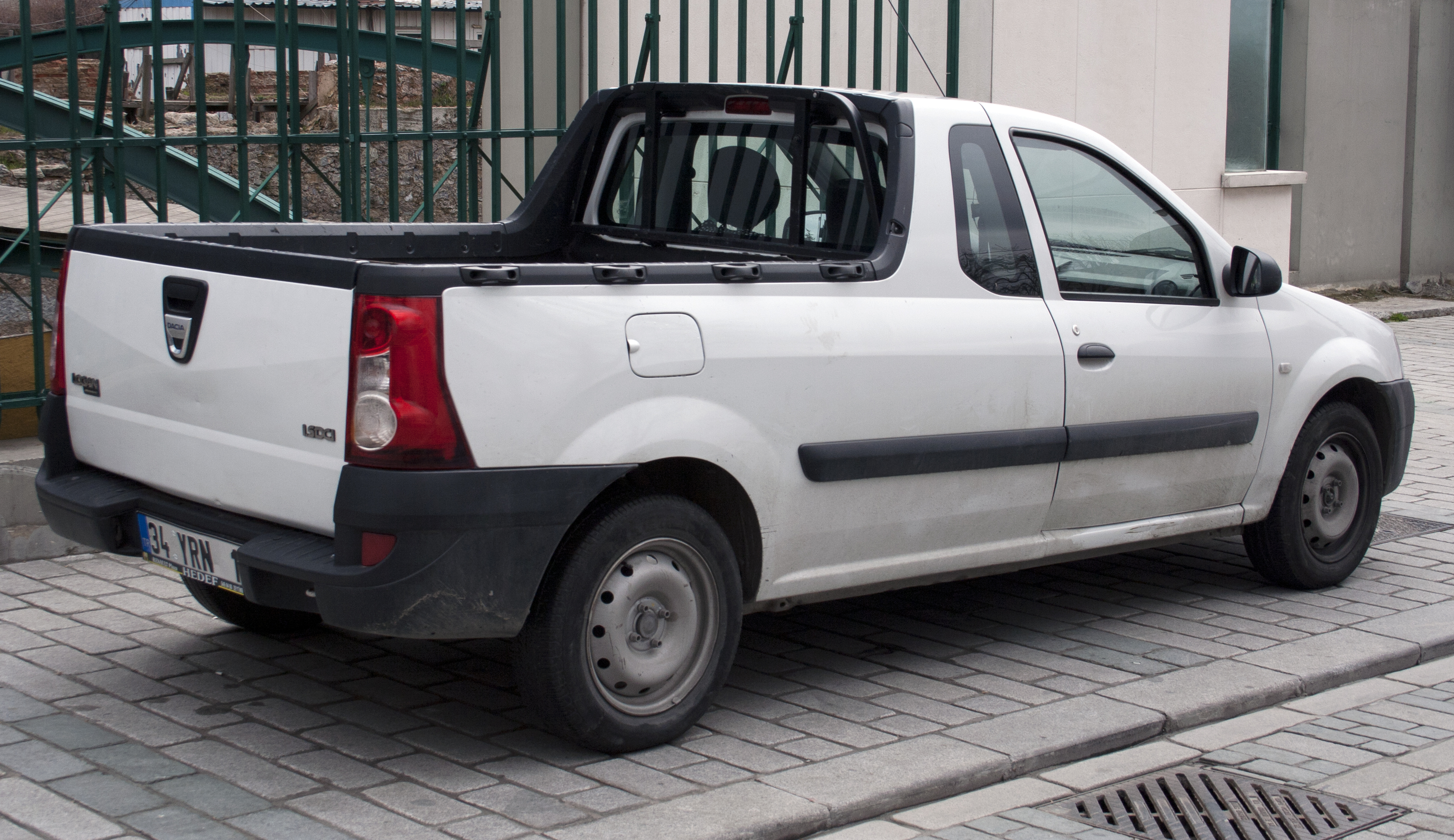 Dacia Logan 1.5 DCi pickup, rear view.